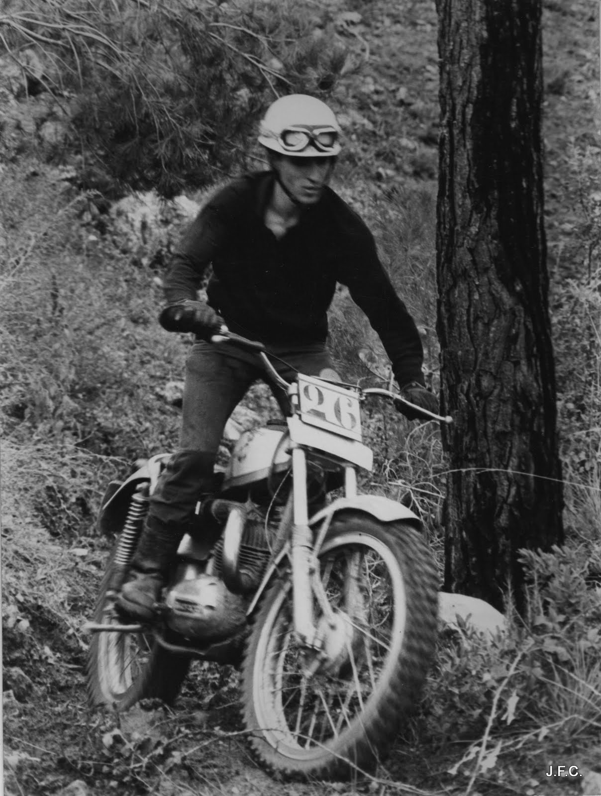 Joan Font on his Bultaco Sherpa T at the 1967 Trial de Sant Llorenç (Catalonia)